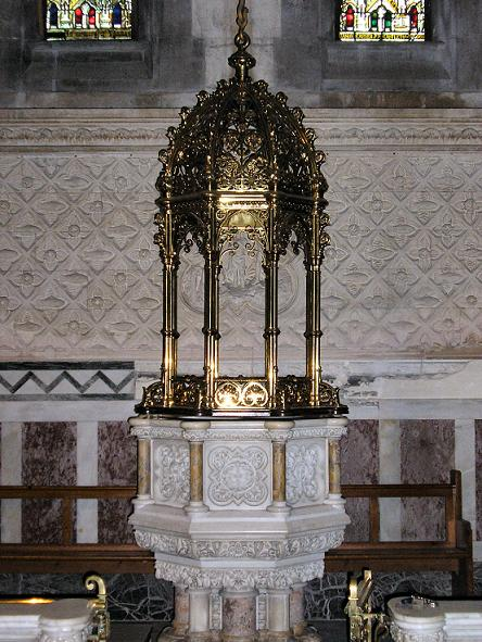 Photograph taken by MacLeinin 2005